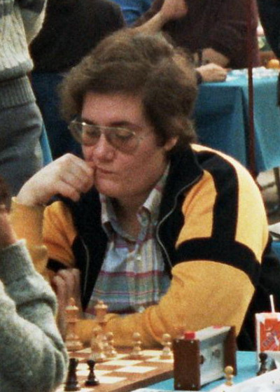 Rachel Crotto, Chess Olympiad 1982 in Luzern, Photographer Gerhard Hund.